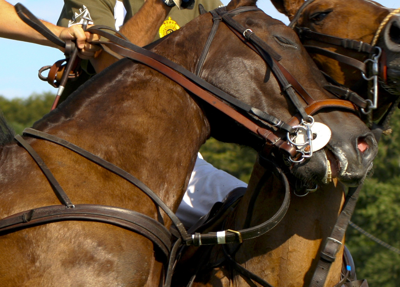 Closeup of ride-off between two polo ponies wearing Pelham bits with double reins.